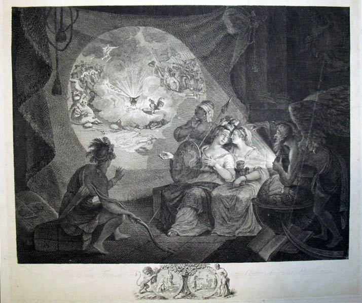 The Tea Tax Tempest, 41 x 49 cm